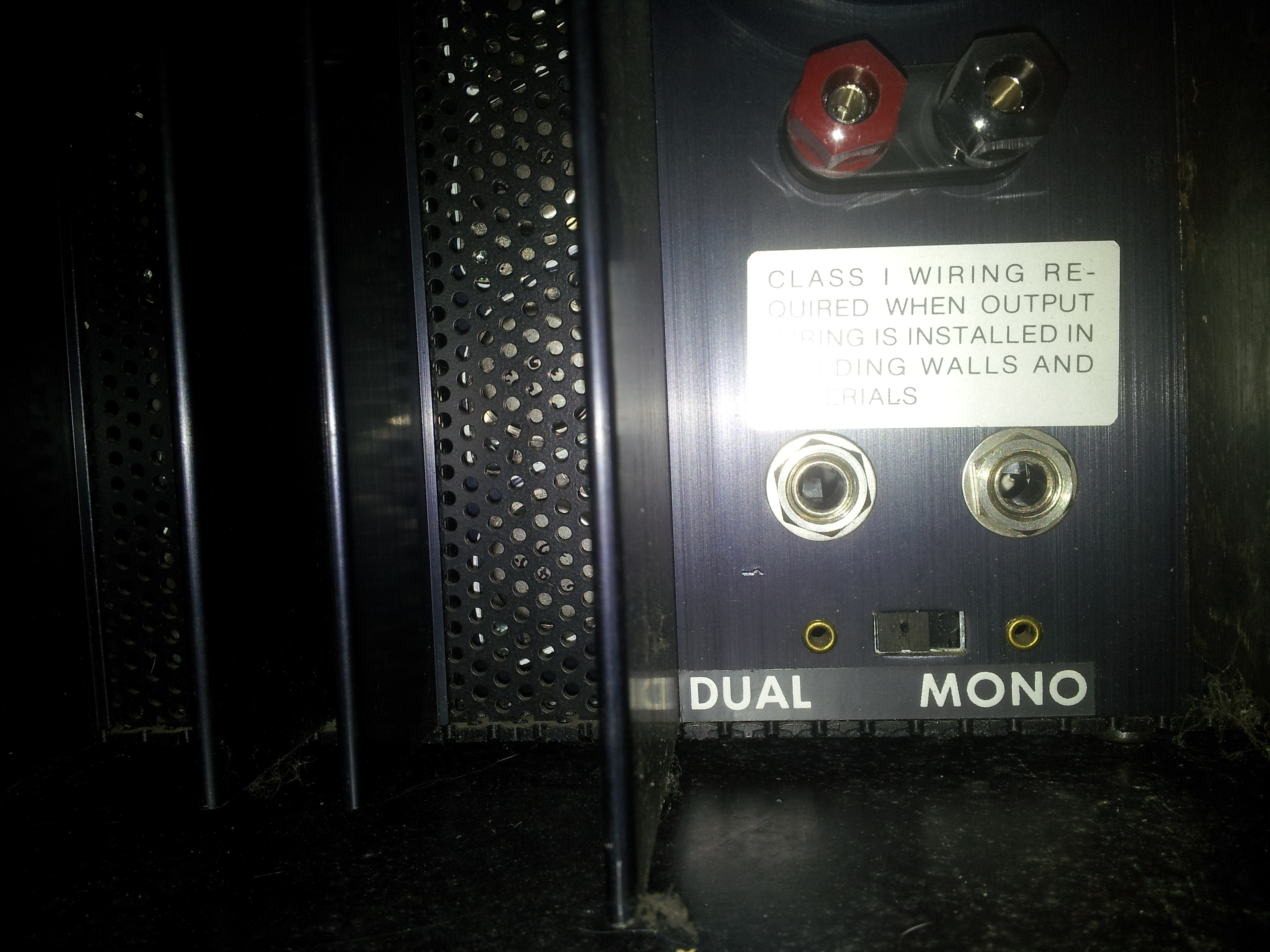 Rear view of a bridgeable power amp.